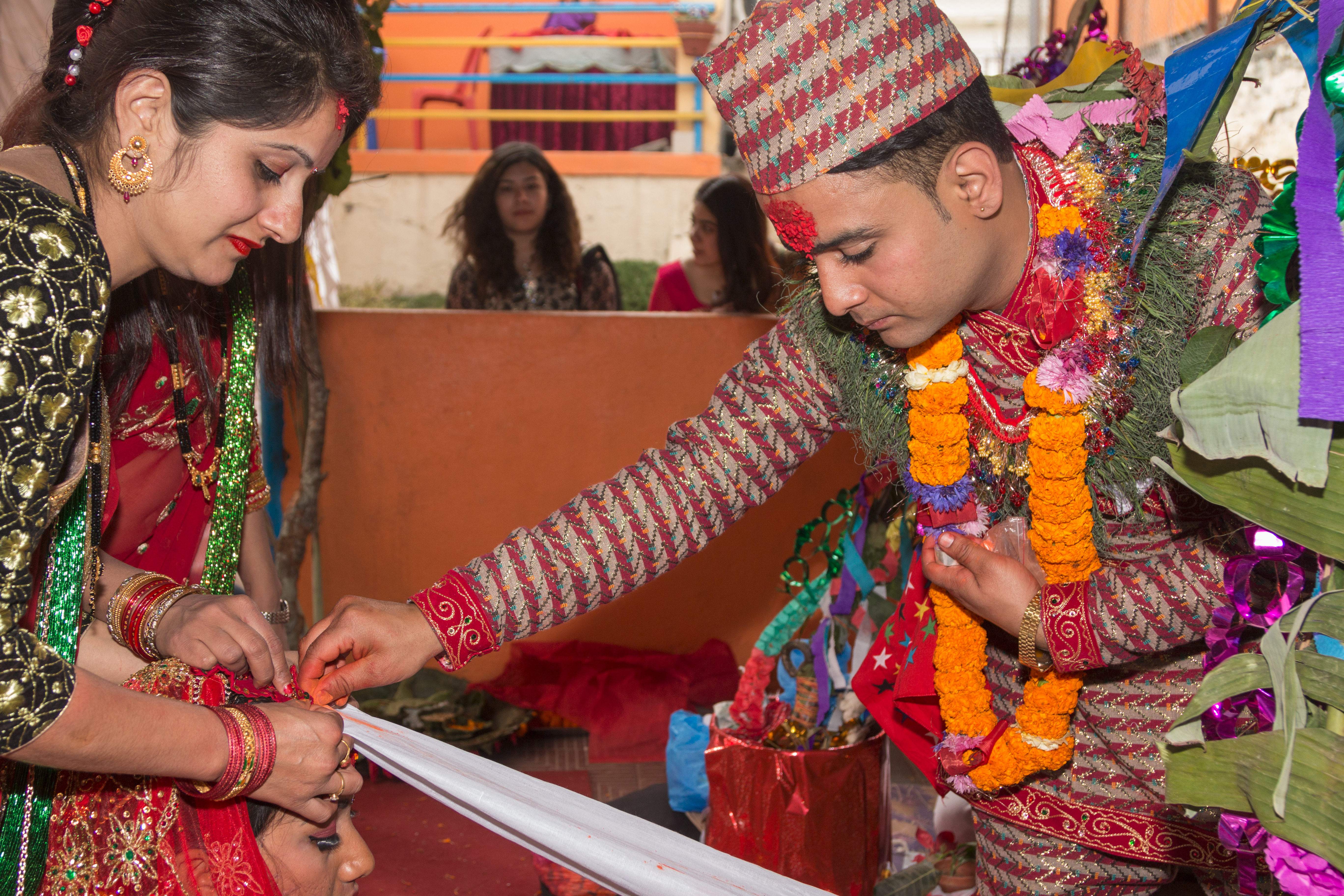 Hindu cultural marriage ceremony and its process.